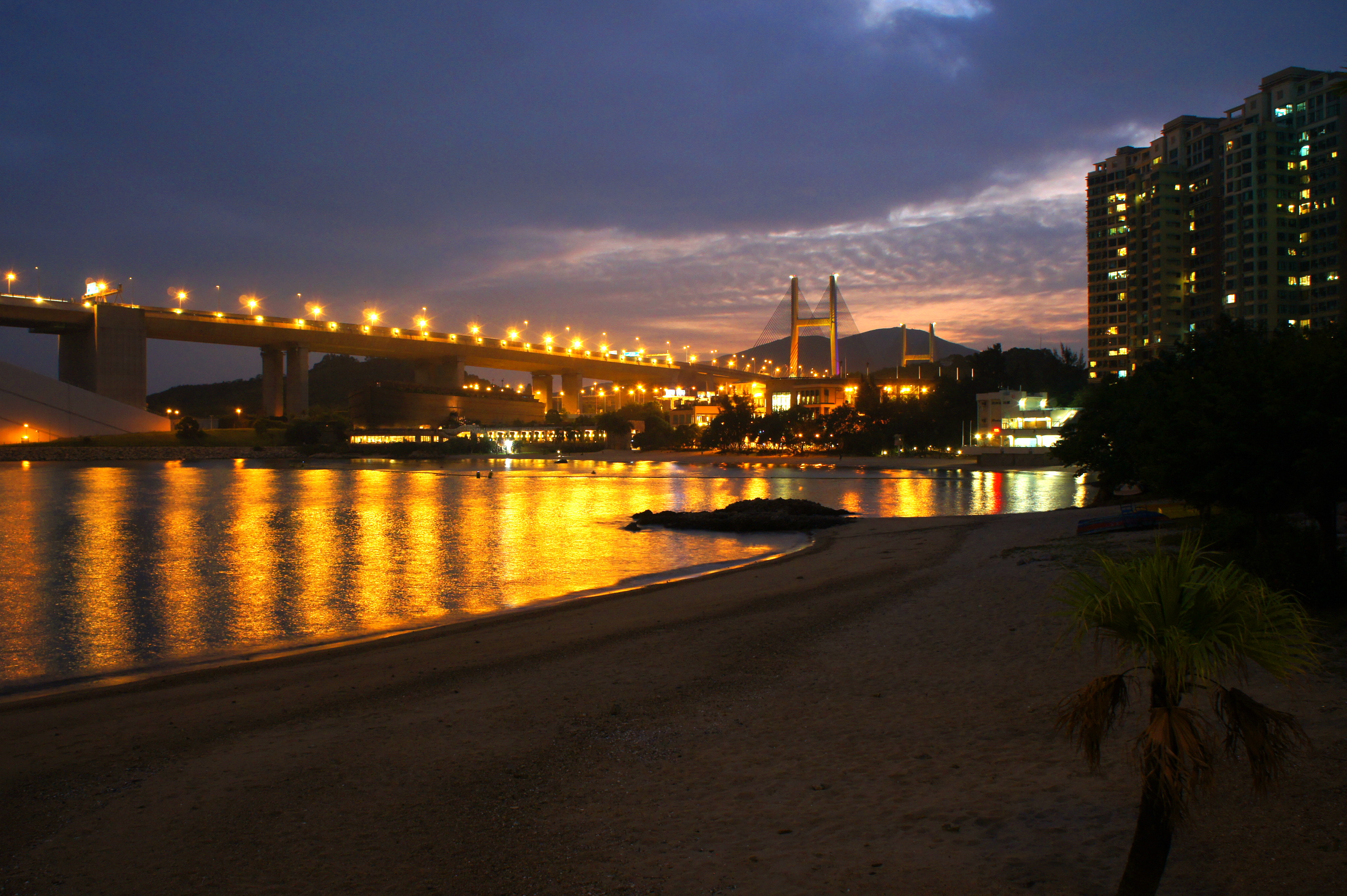 Tung Wan in the evening (Ma Wan, Hong Kong)